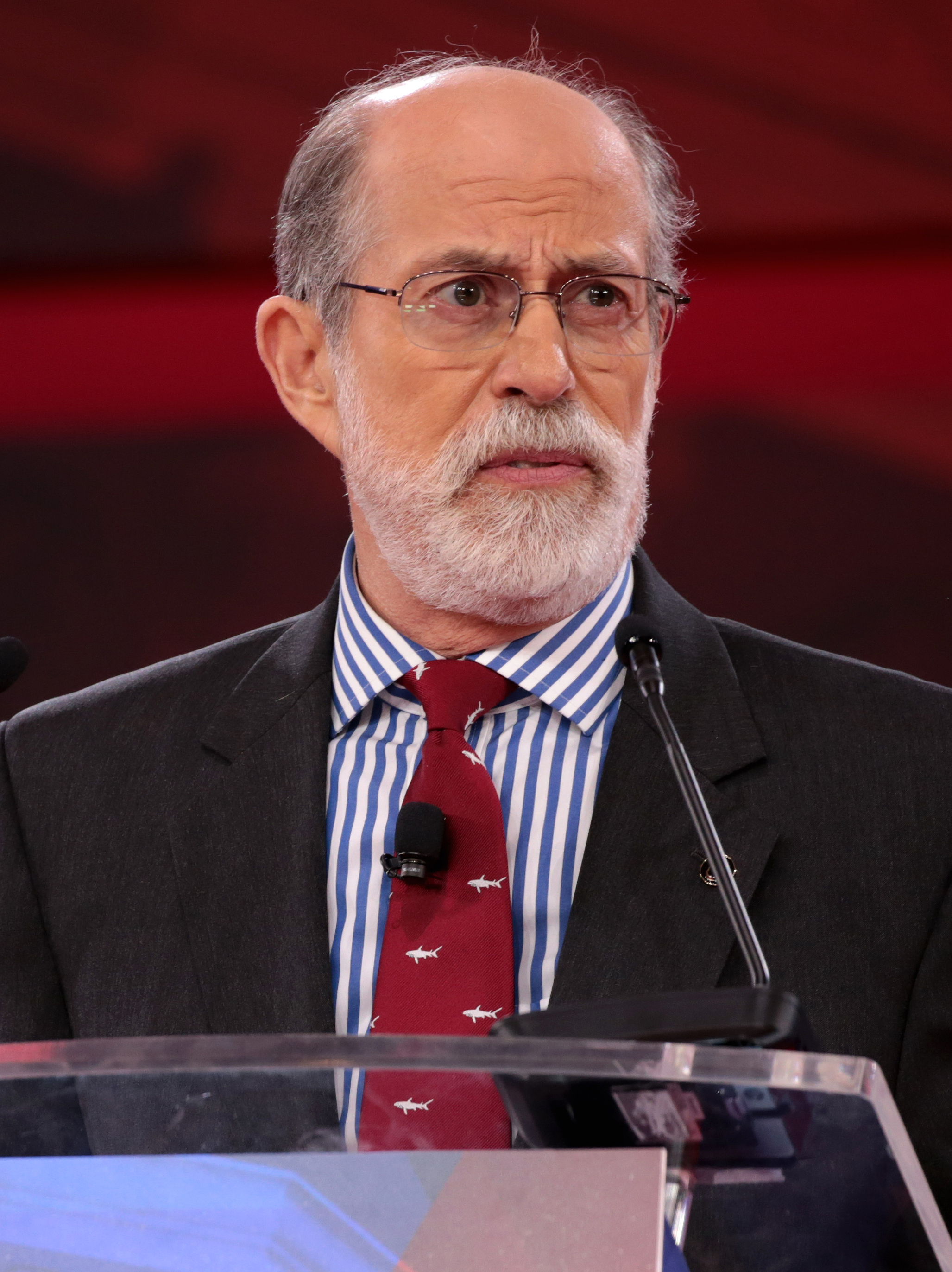 Frank Gaffney speaking at the 2018 CPAC in National Harbor, Maryland.